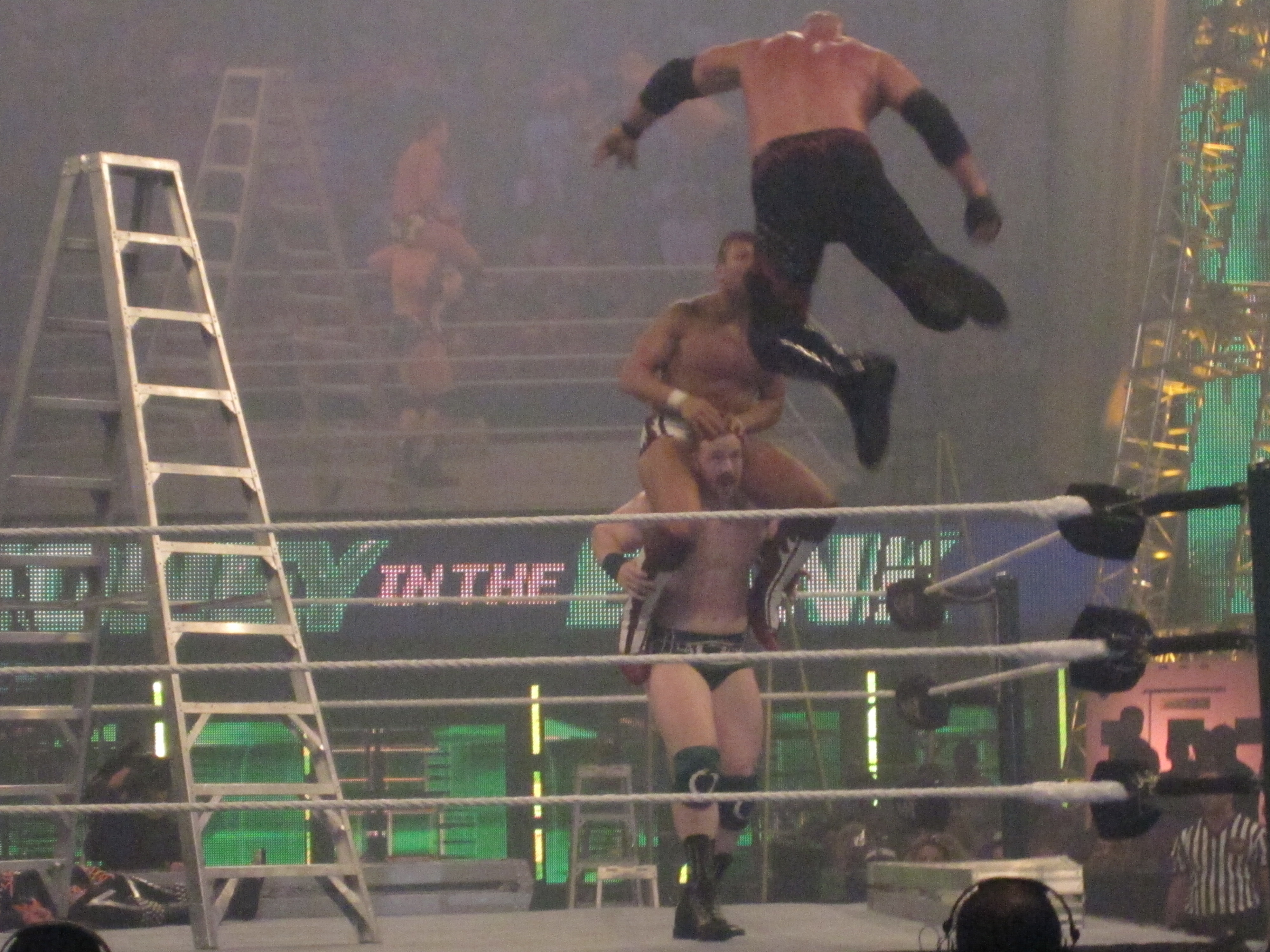 During the Money the Bank pay-per-view in Rosemont, Illinois on 17 July 2011, Sheamus hoists Daniel Bryan on his shoulders in preparation for Kane (right) to hit a Doomsday clothesline on Bryan. The wrestlers were participating in a Money in the Bank ladder match.